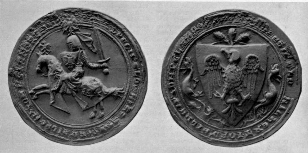 Seal of Ralph de Monthermer, 1st Baron Monthermer